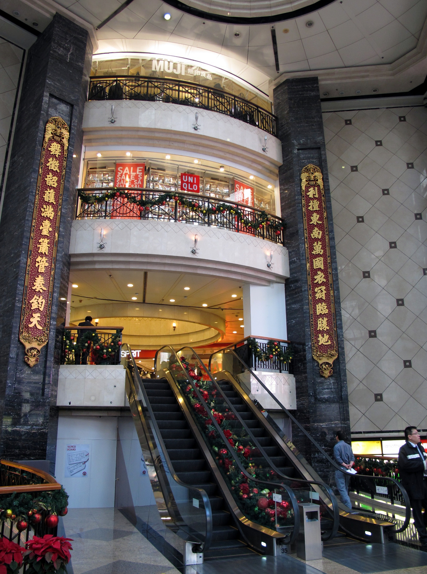 Lee Theatre Plaza Entrance Void 利舞臺廣場正門入口